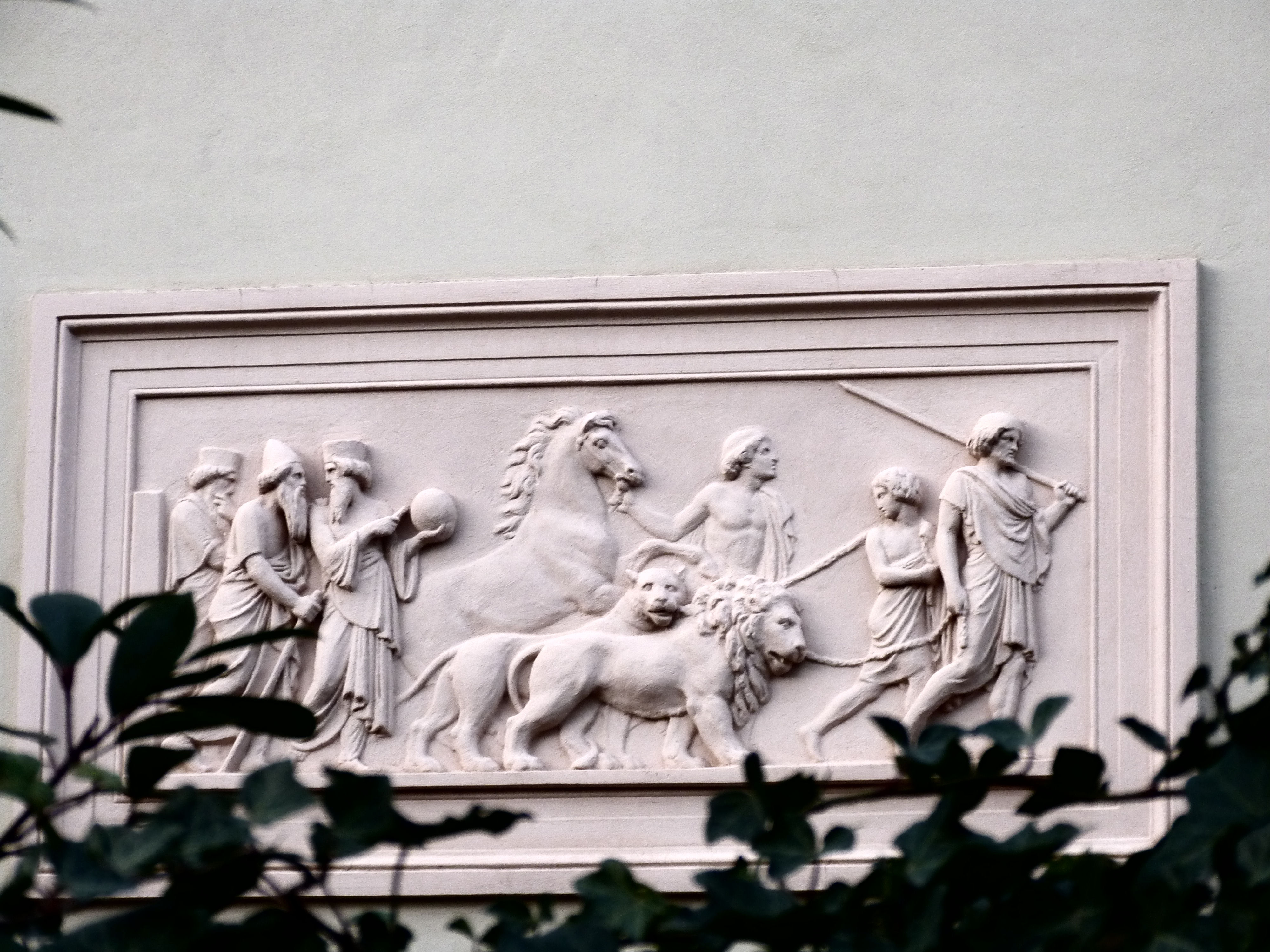 Detail at the villa Heine, Luisenstrasse No. 1, Halle (Saale)